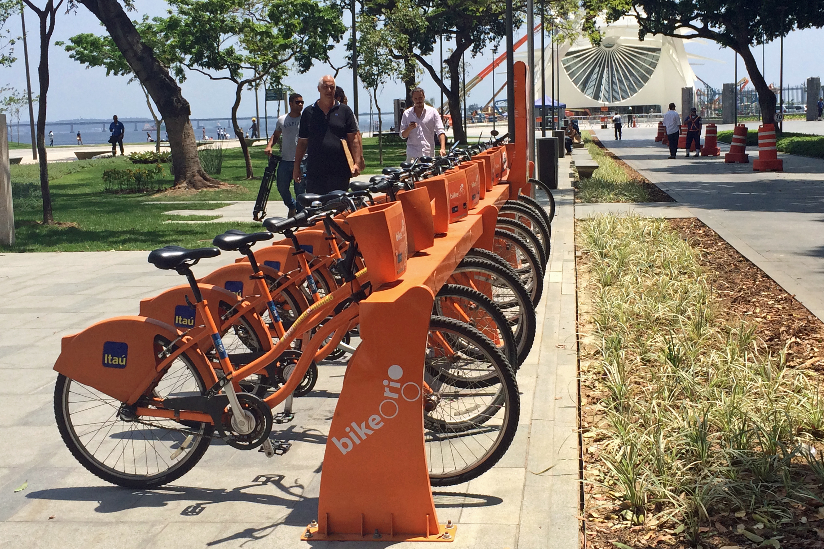 BikeRio bikesharing station at Maua Square, Rio de Janeiro City, Brazil